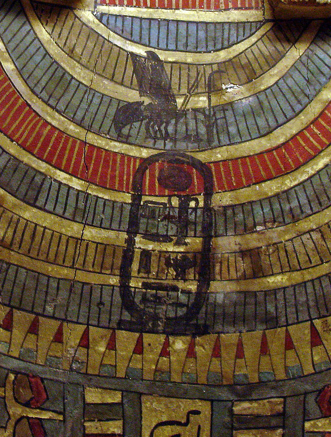 Detail of the of the rishi cofin of the 17th dynasty king Sekhemre-Heruhirmaat Intef. The king's name written in black across his chest. Stuccoed and painted wood. Height: 1.85 m. Louvre Museum. E. 3020